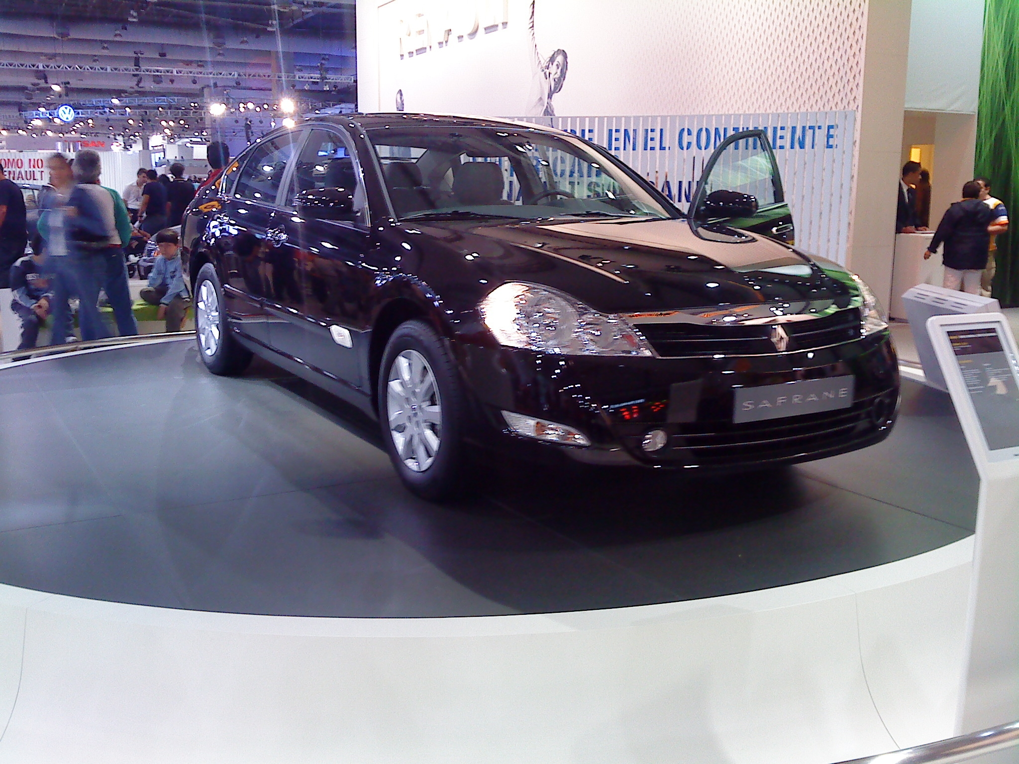 Renault's new Safrane at the 2008 SIAM.